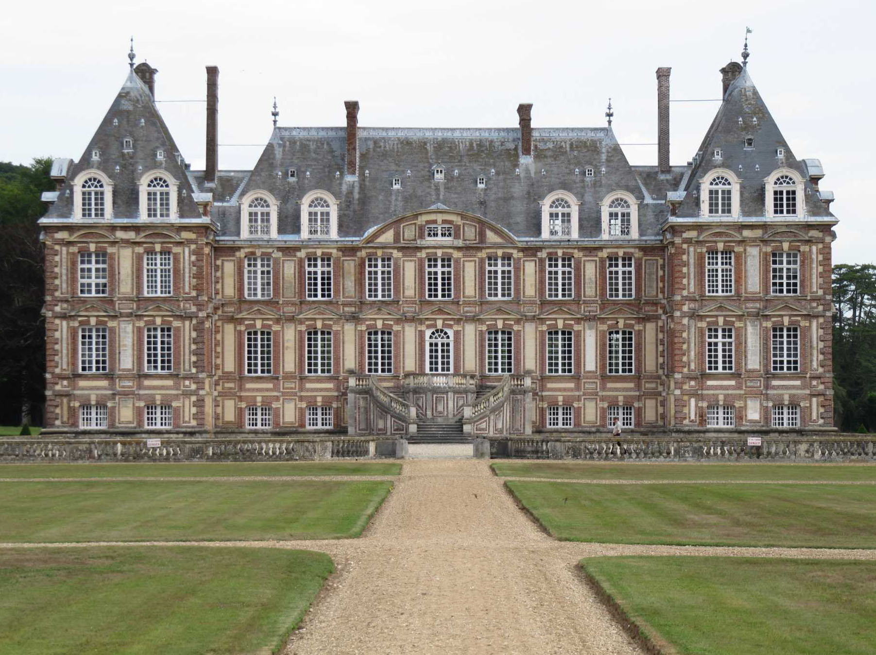 Château de Cany, Cany-Barville, Seine-Maritime, France